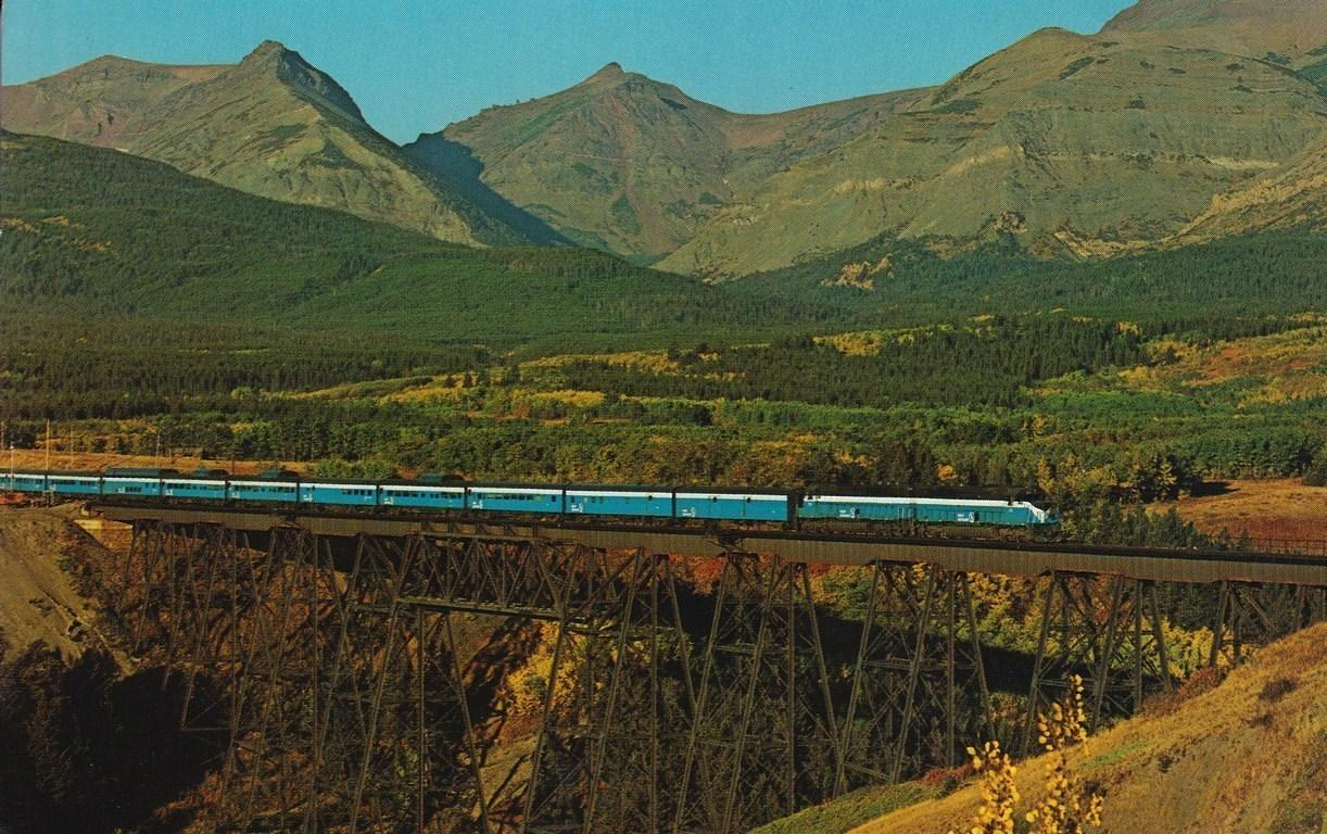 The Great Northern Railway's Empire Builder east of Glacier National Park in Montana. Along with Northern Pacific and Spokane, Portland and Seattle Railroads, the Great Northern merged with the Burlington Route in 1970 to form Burlington Northern. The train is painted in the Burlington Northern colors of the time-circa 1970-1971.